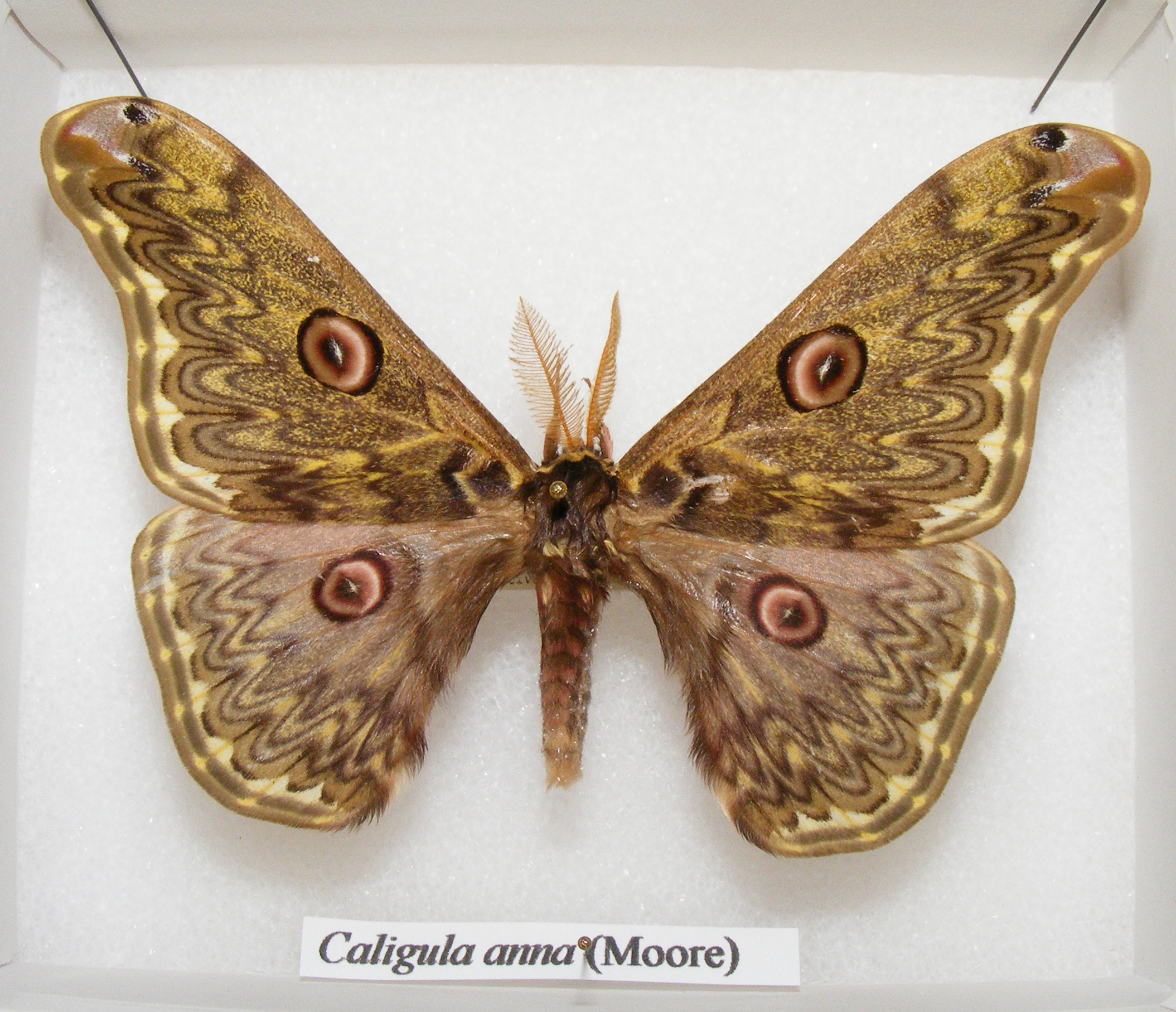 Caligula anna adult from the Texas A&M University Insect Collection